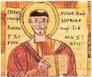 detail of Plut. 65.35 fol. 16v, showing Eutropius. Eutropius is considered a pagan author (because, writing in the 370s, he does not discuss Christiainity in any detail), but he was assumed to have been a Christian in the past (because in some mss., his text calls Julian an "excessive" persecutor of Christianity (nimius insectator religionis Christianae),[1] and he is here depicted as a Christian priest (or saint?) The upload under the misleading filename of "Paulus Diaconus.jpg" dates to 2004. Text: In nomine domini incipit storiae romanae liber primus Eutropii